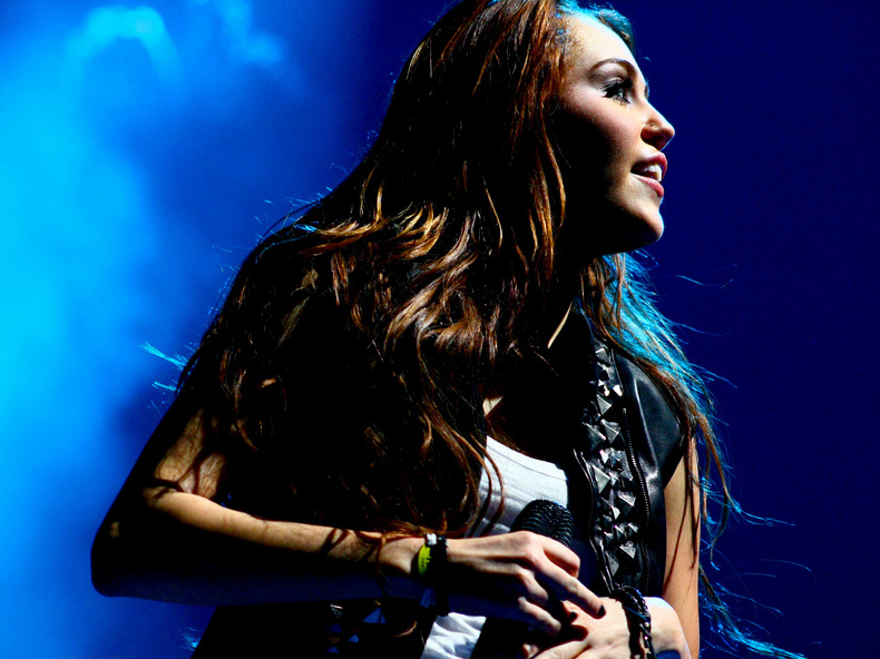 Miley Cyrus during the wonder world Concert in Detroit, Michigan.